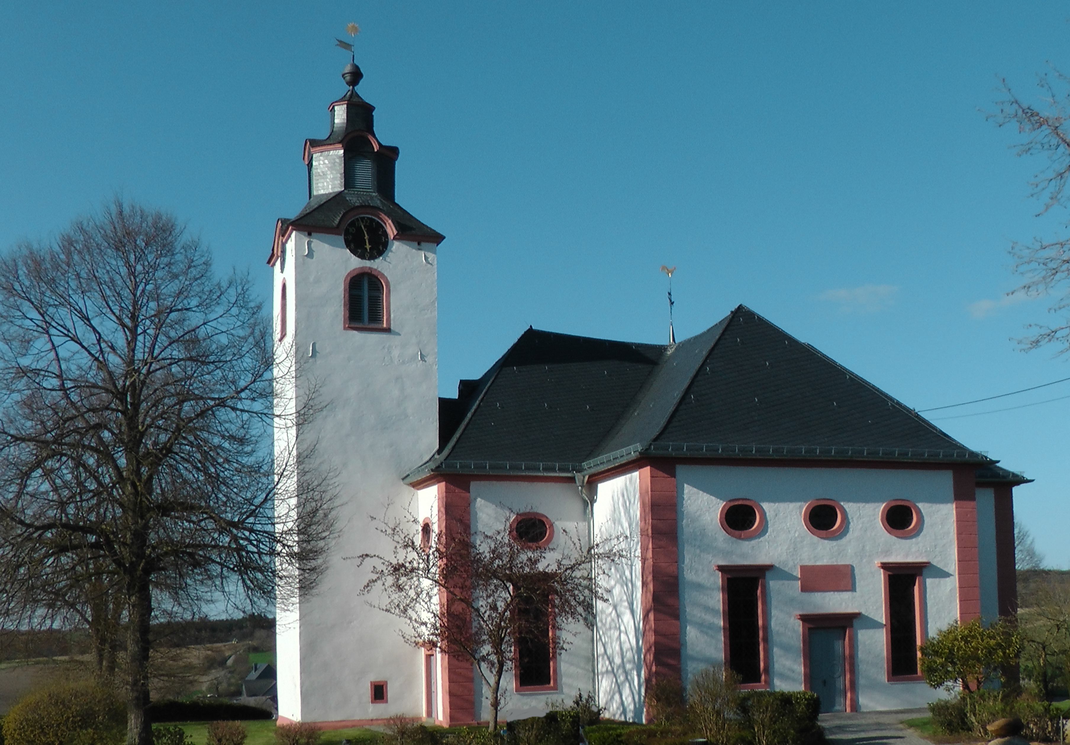 Protestant church Kleinich (Gernamy, Rhineland-Palatinate, Hunsrück) from the south.